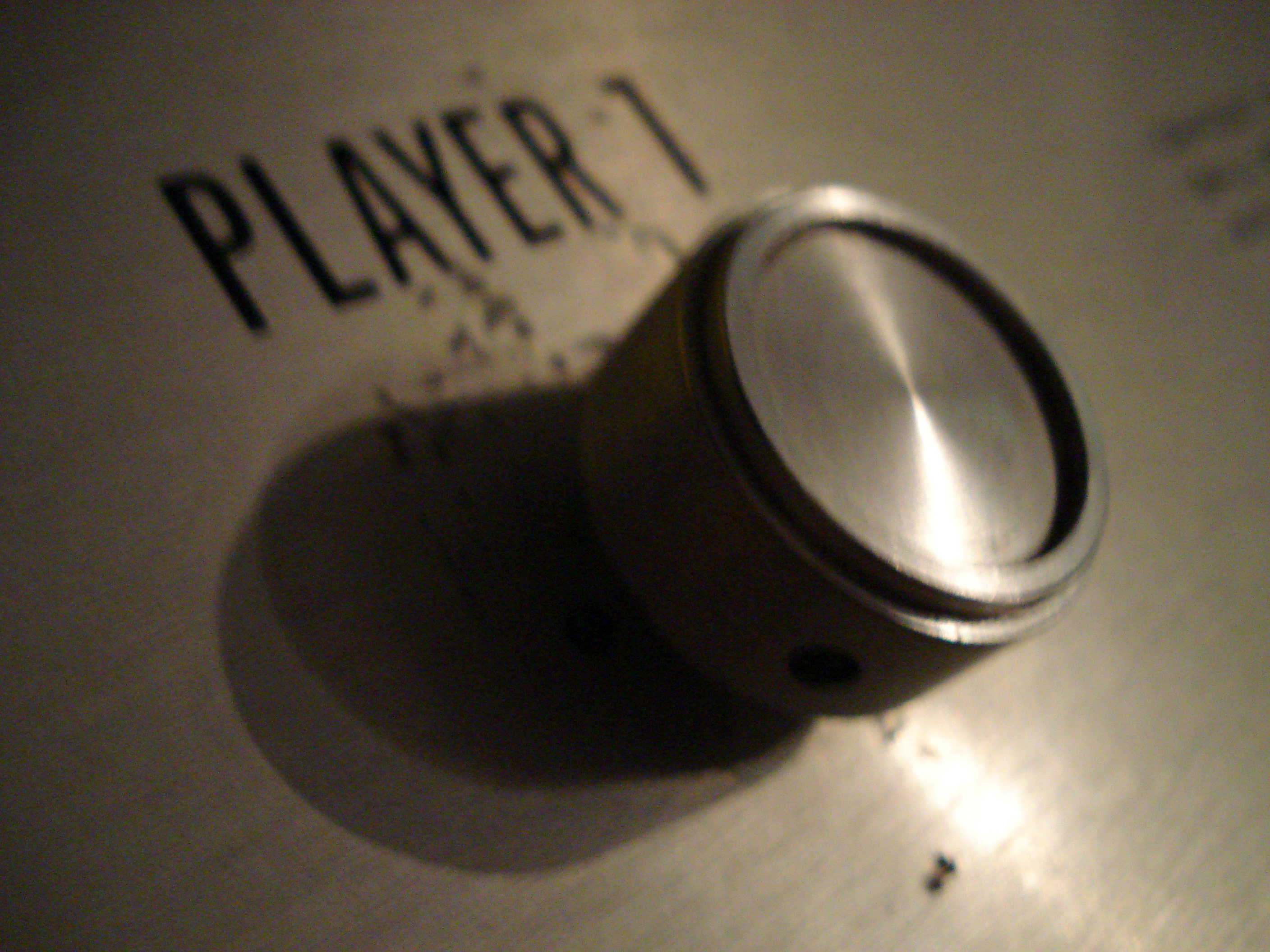 Paddle of the Atari Pong arcade cabinet.